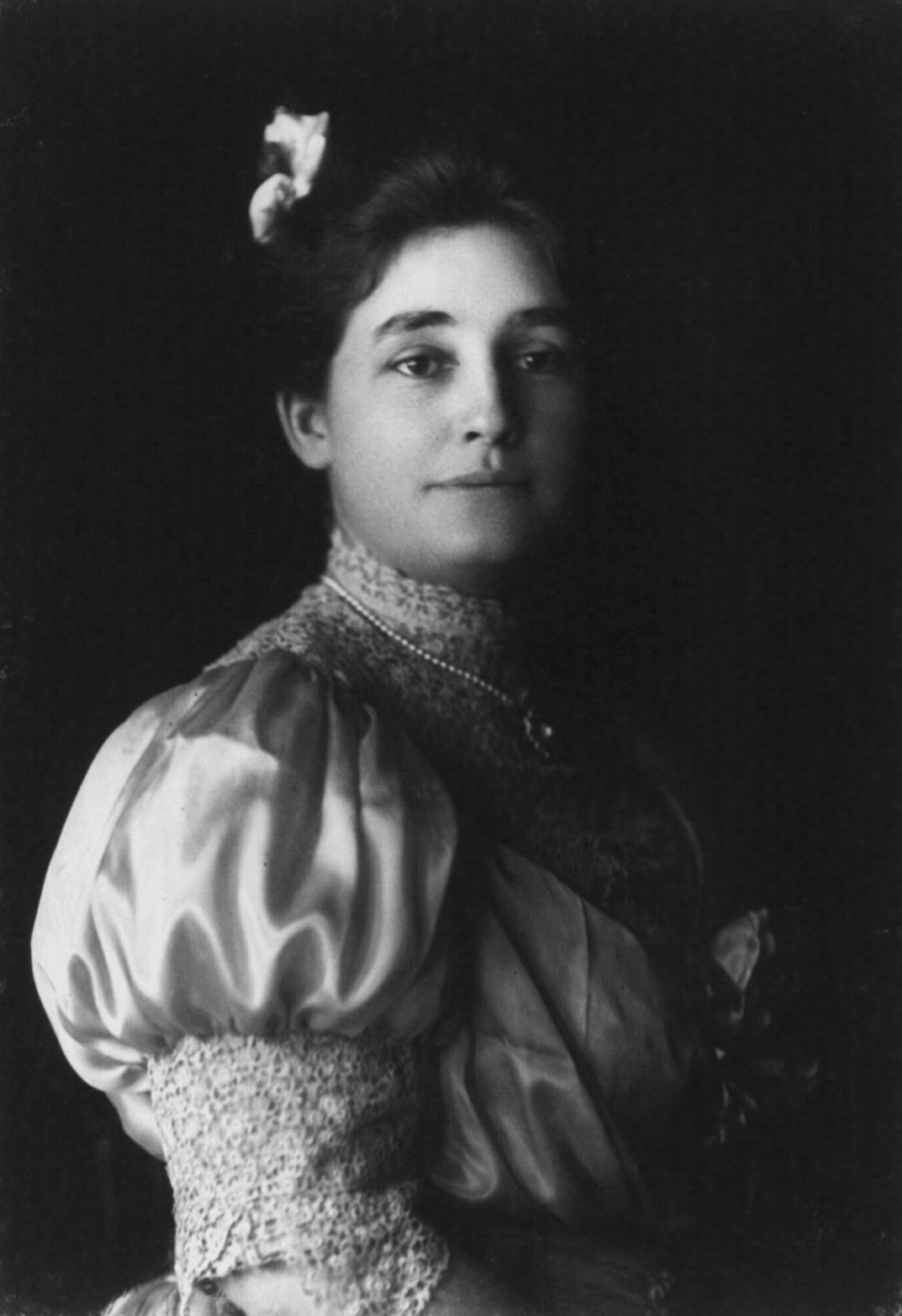 Mina Edison, née Mina Miller, second wife of American inventor Thomas Alva Edison (1847-1931)